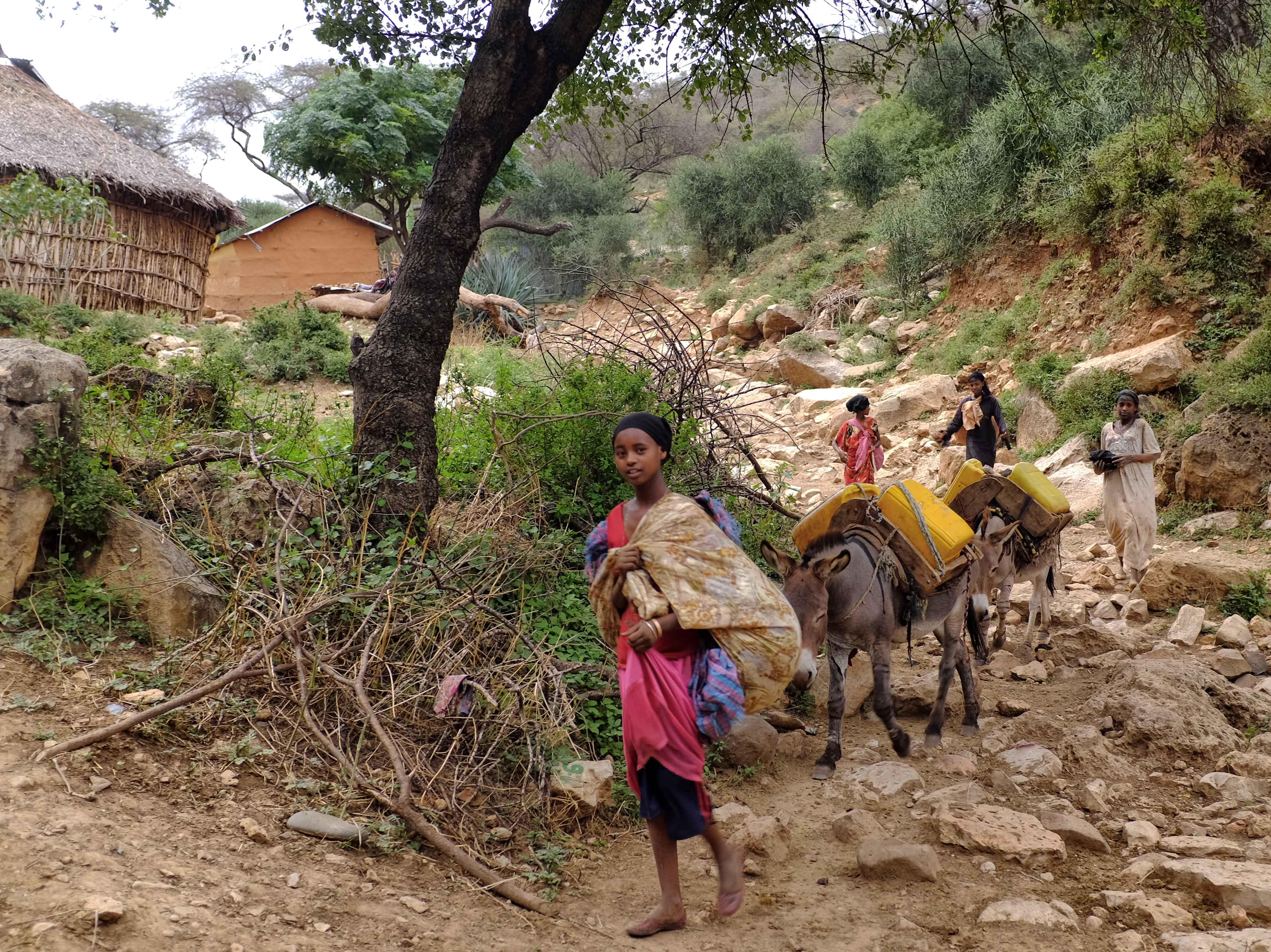 Daily Water, Sof Omer, Ethiopia